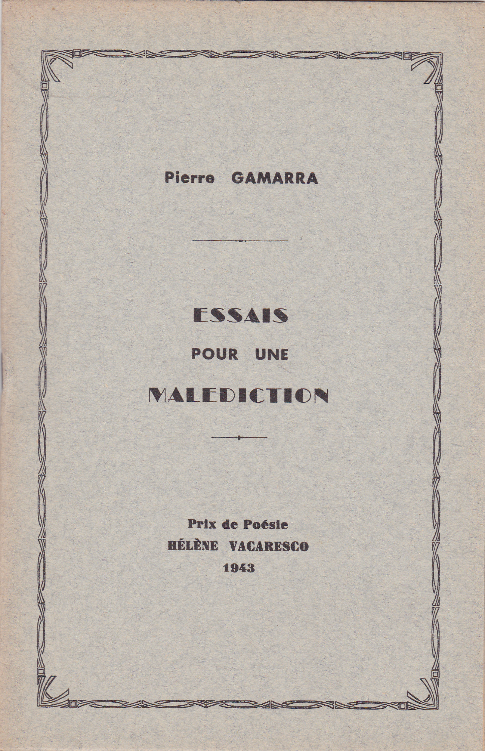 Cover of Pierre Gamarra's first published work Attempts for a curse (1943)